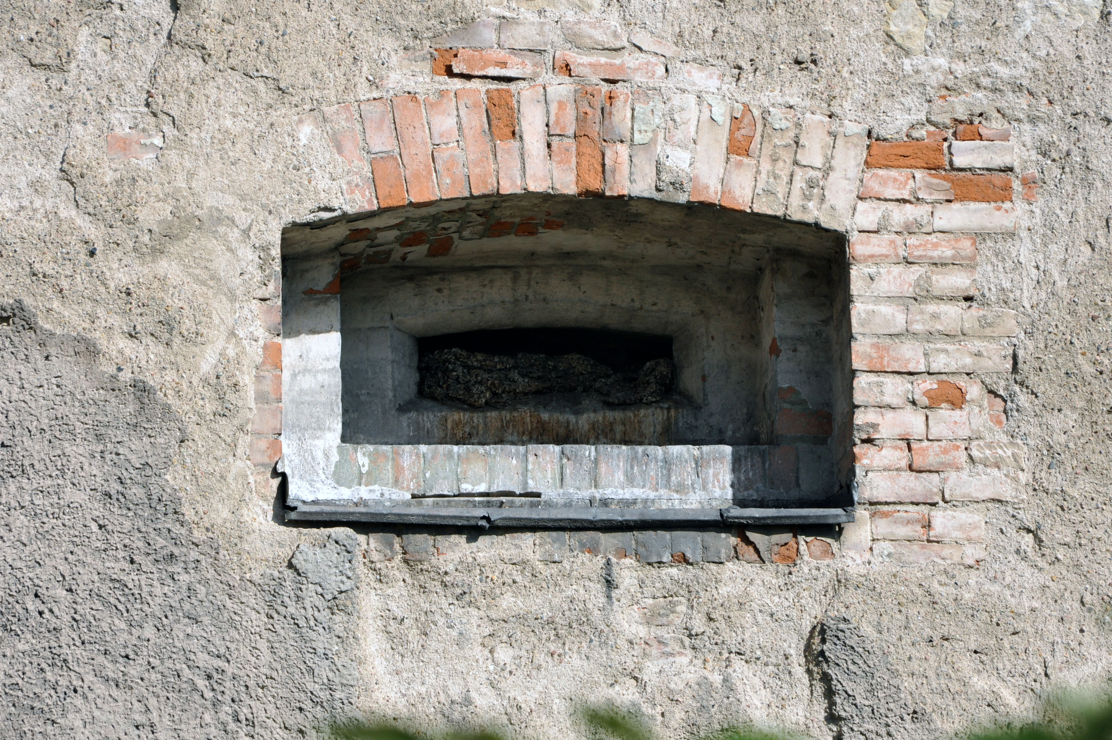 Category:26 Łukasińskiego Street in Kłodzko, ambrasure